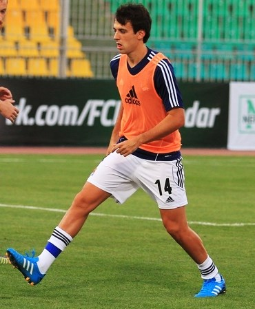 Rubén Pardo